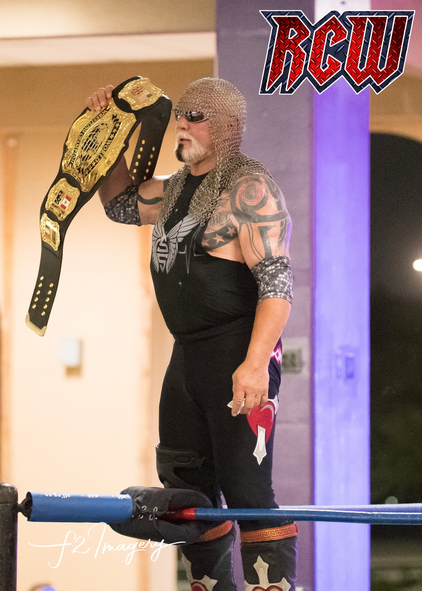 Scott Steiner as champion